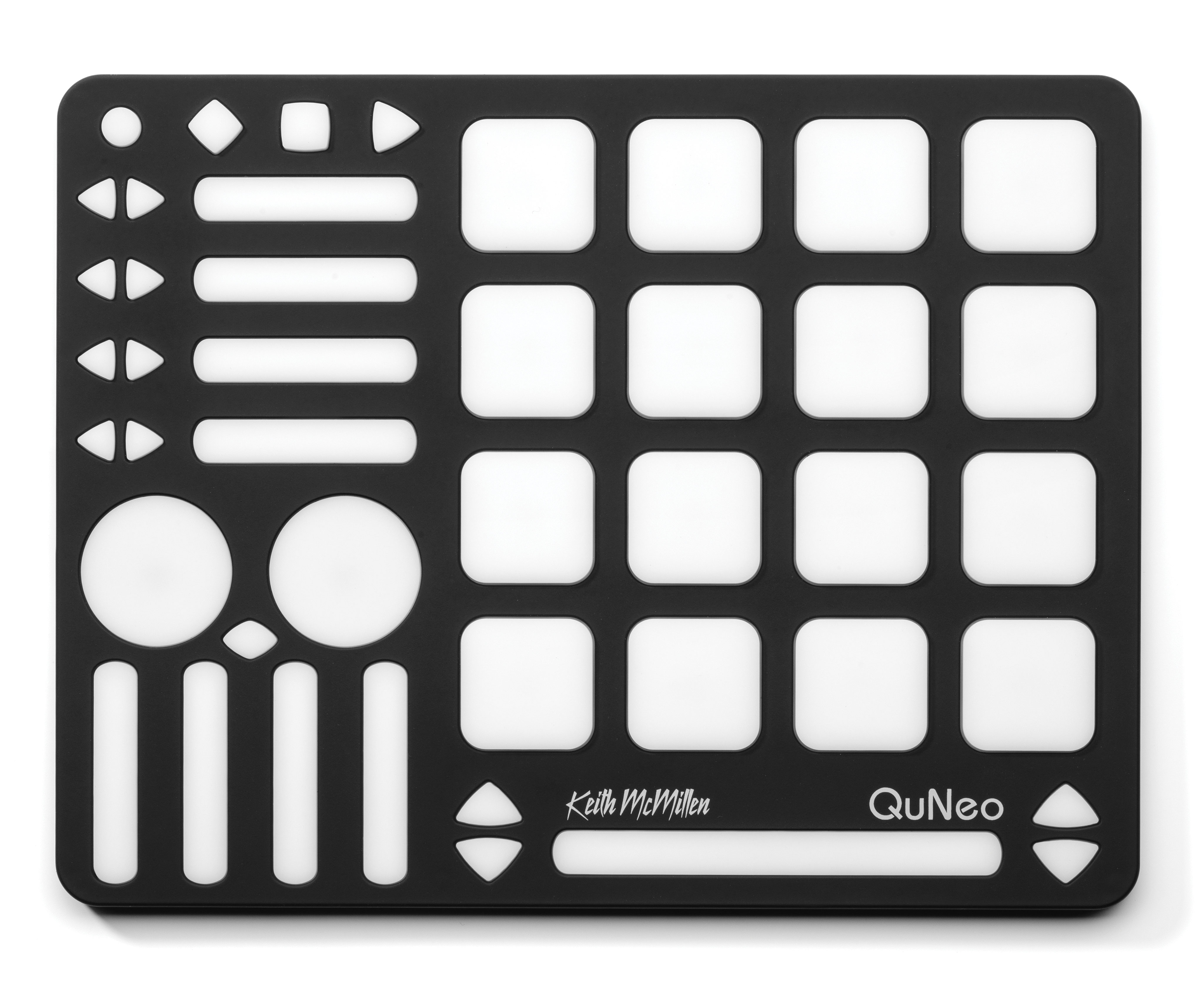 QuNeo controller